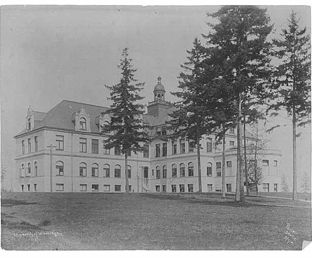 The Administration Building was renamed Denny Hall in 1910. Caption on image: University of Washington, 1. Peiser. Seattle. 5/1/01 . Peiser 10020 Subjects (LCTGM): University of Washington--Buildings--Washington (State)--Seattle